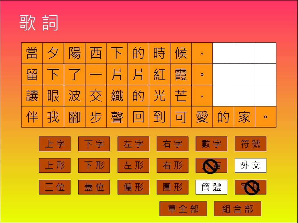 The screenshot simulation of the game show The Wise Man of the Chinese Characters (Chinese: 全民字多星).